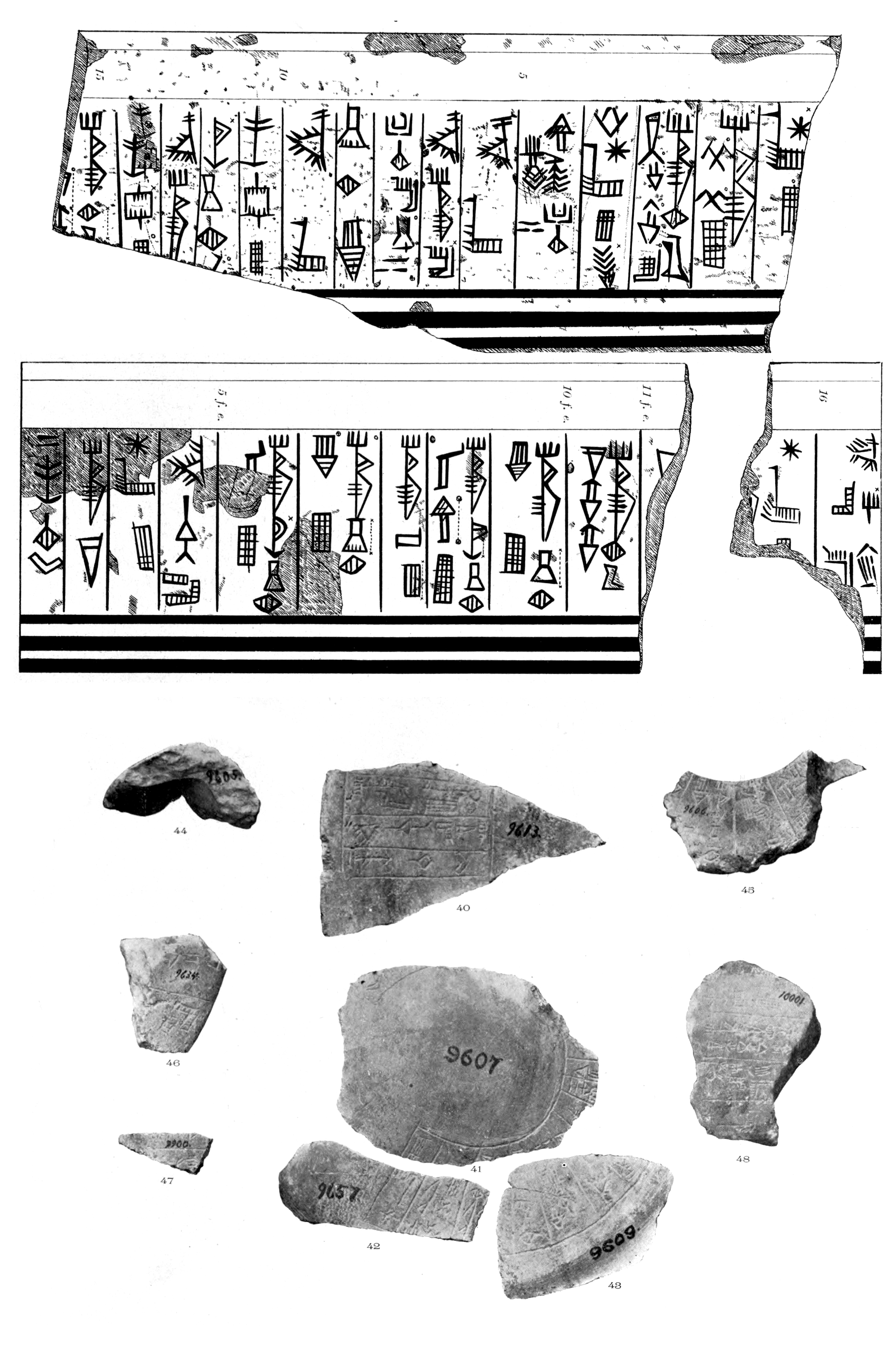 Vase inscription of Lugalkiginedudu